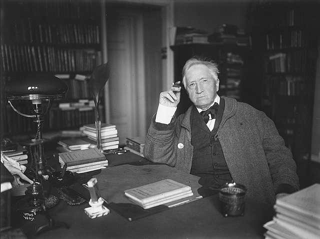 Norwegian artist and educationalist Nordahl Rolfsen in his office.